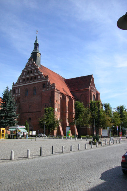 St. Nicoli Church (Wunderblut) Wilsnack 2004 Photograph by Dale Schultz